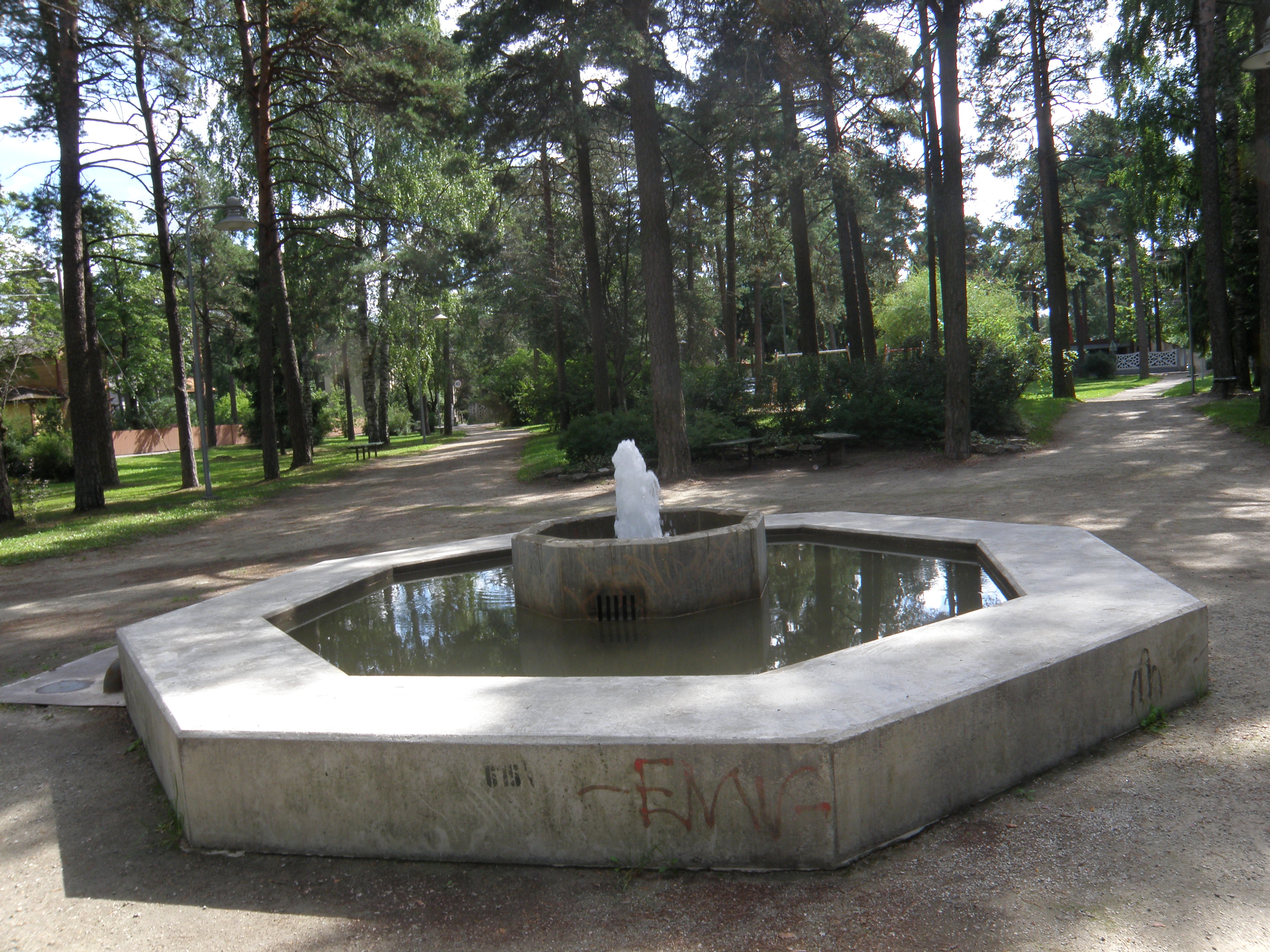 Õie park in Tallinn